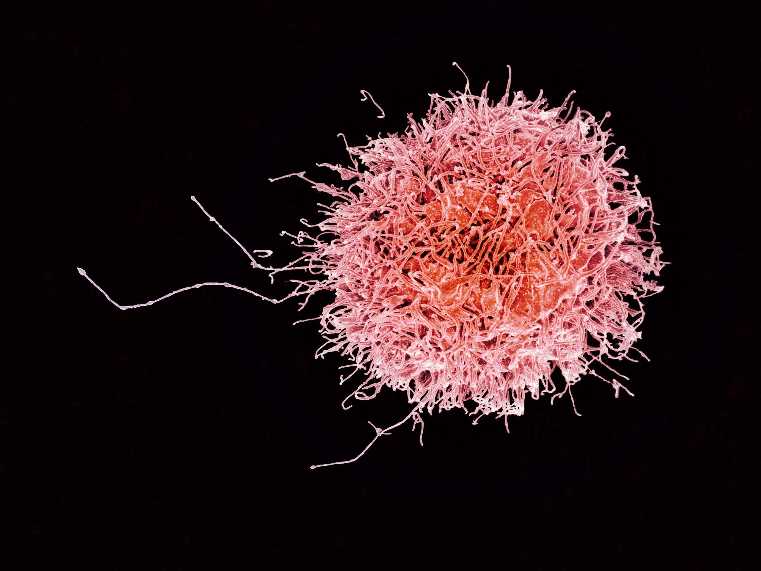 Colorized scanning electron micrograph of a natural killer cell from a human donor. Credit: NIAID